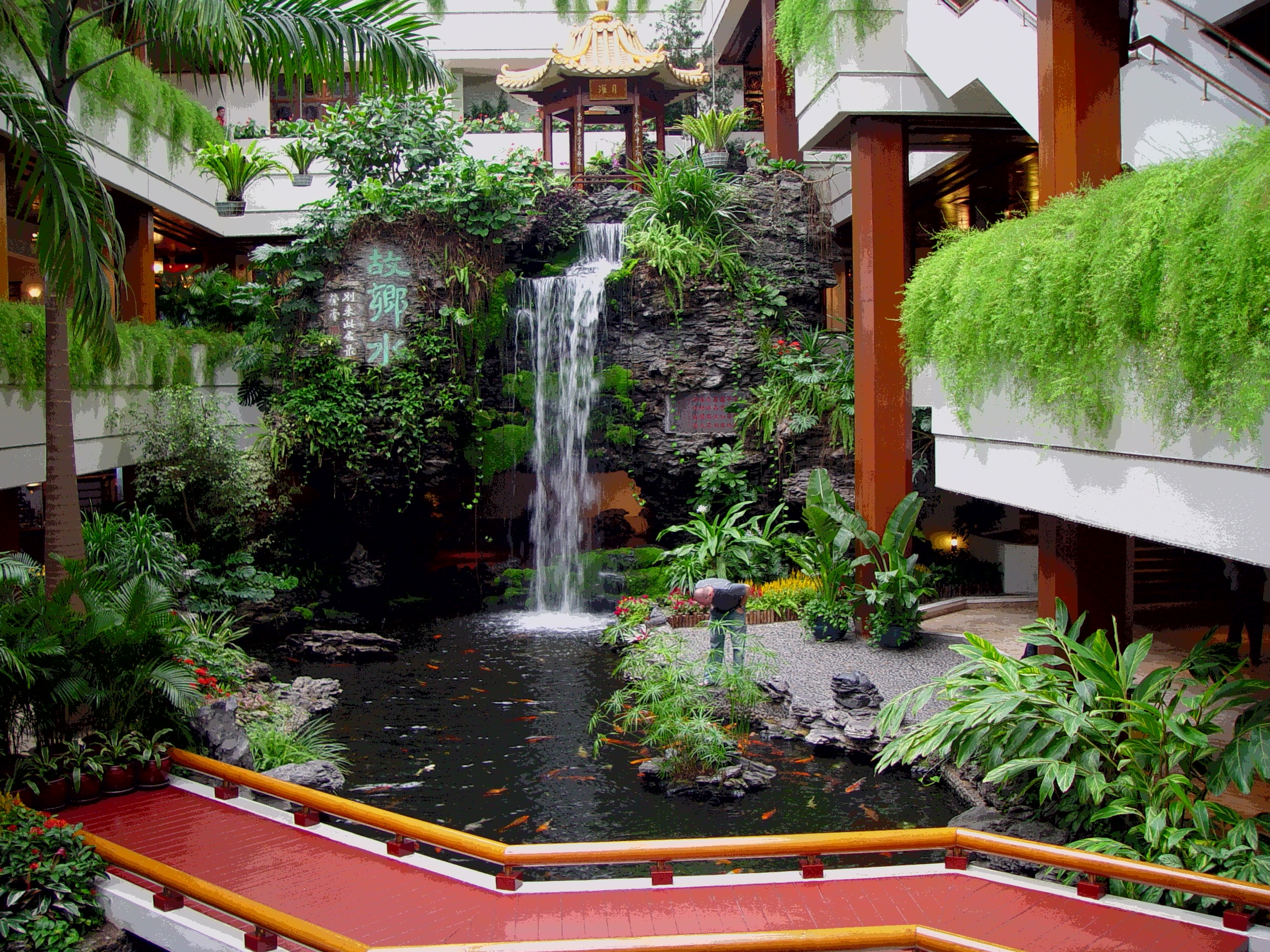 Shamian Island, Waterfall inside the White Swan Hotel.